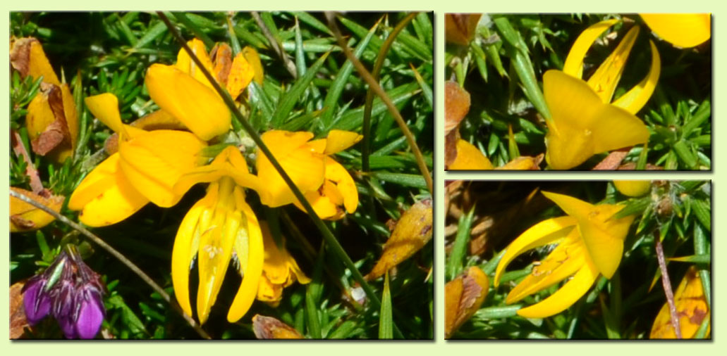 Fleurs d'Ulex gallii